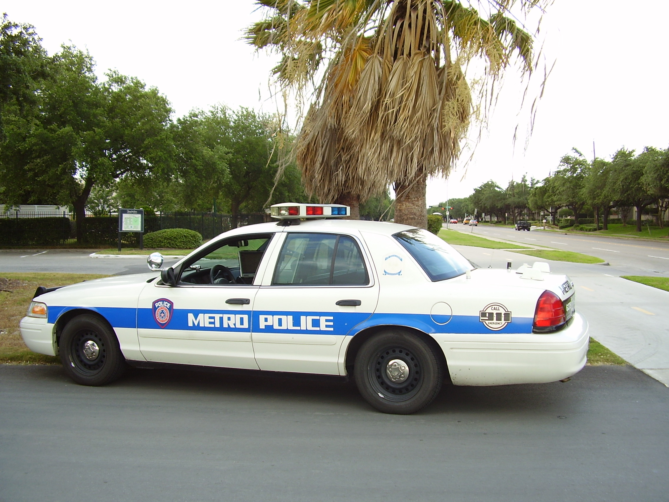 Police car used by Metropolitan Transit Authority of Harris County, Texas